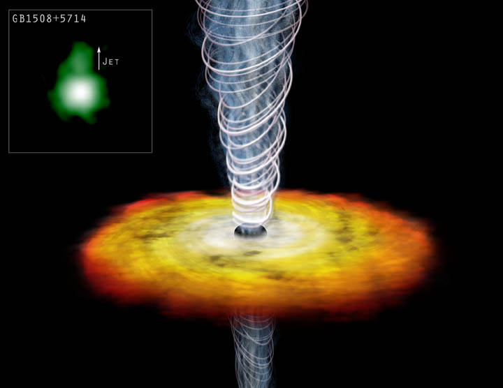 Artist's impression of quasar GB1508 with Chandra x-ray image inset Original image